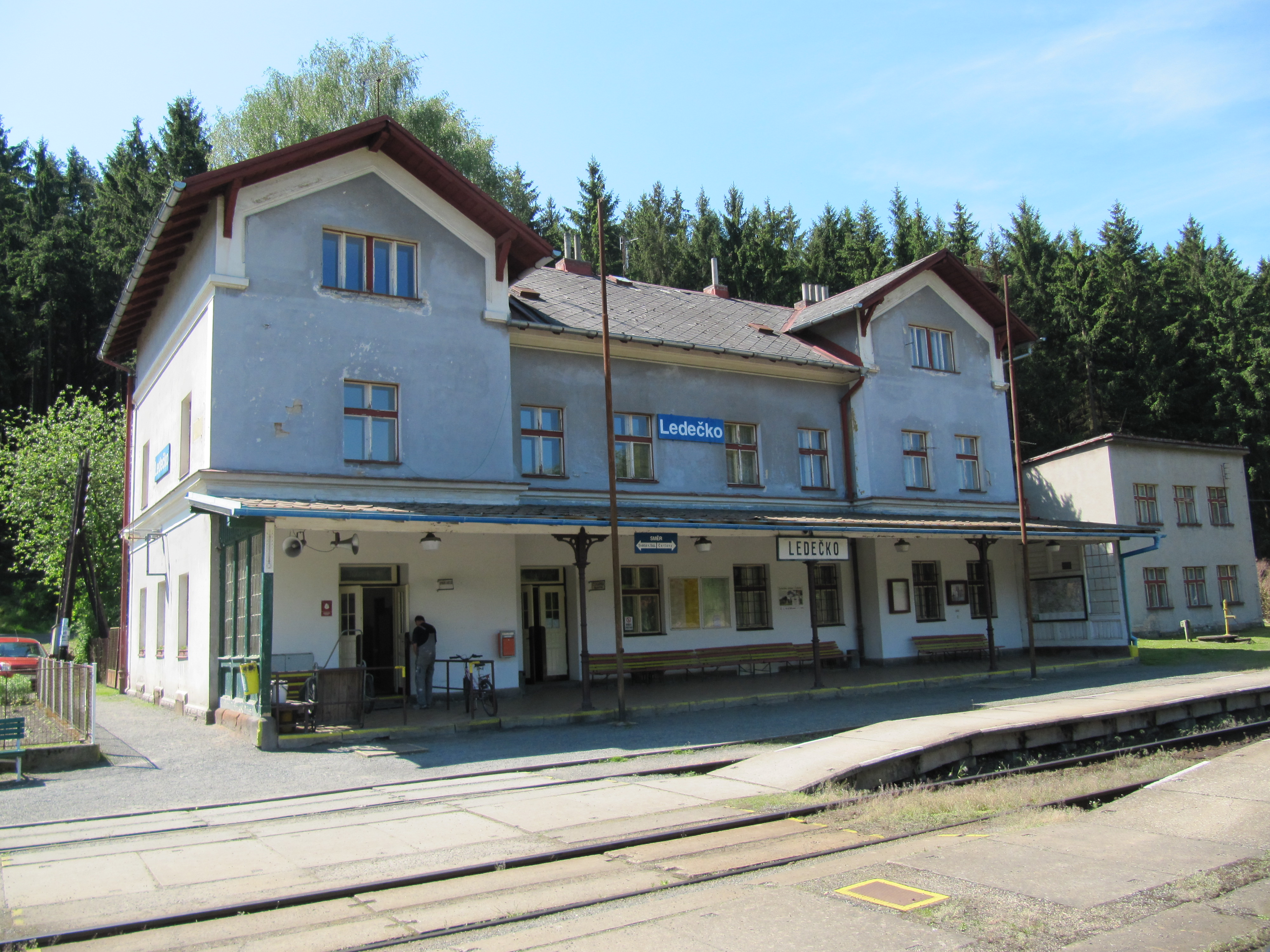 Ledečko in Kutná Hora District, Czech Republic. Train station.